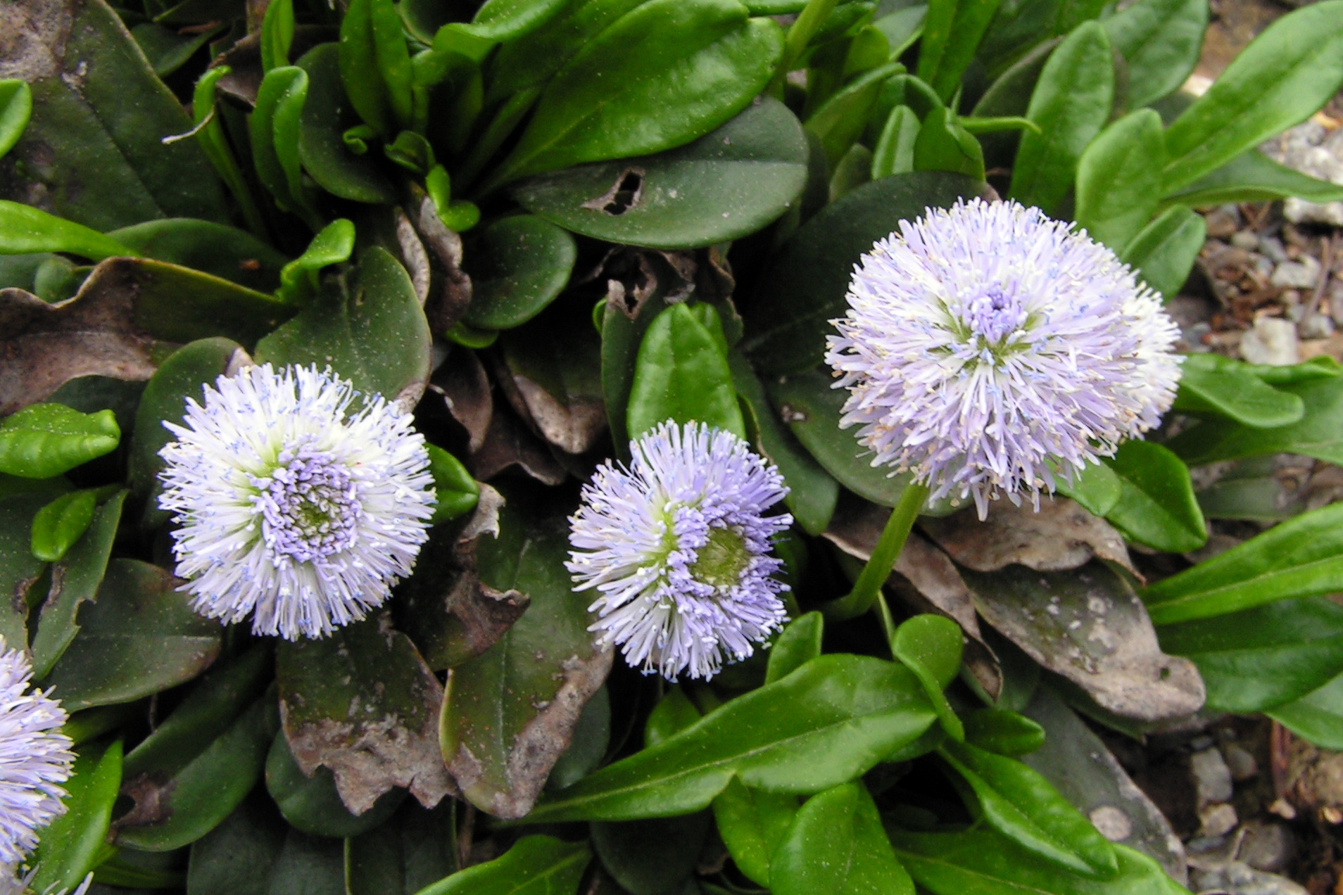 Globularia nudicaulis in the Botanical Garden of the University of Vienna